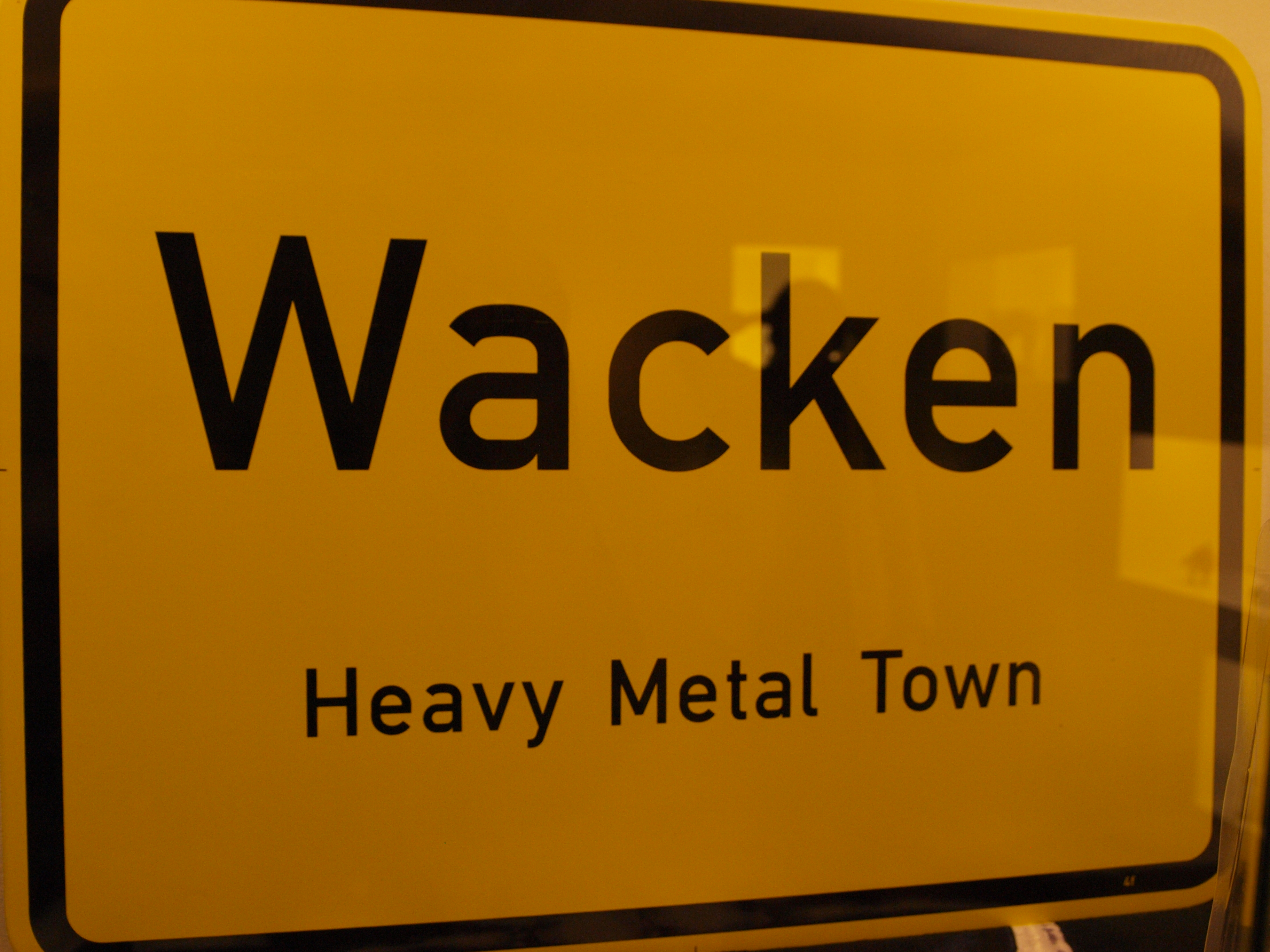 Faked town sign of German village Wacken, home of worlds largest Heavy Metal open air festival.